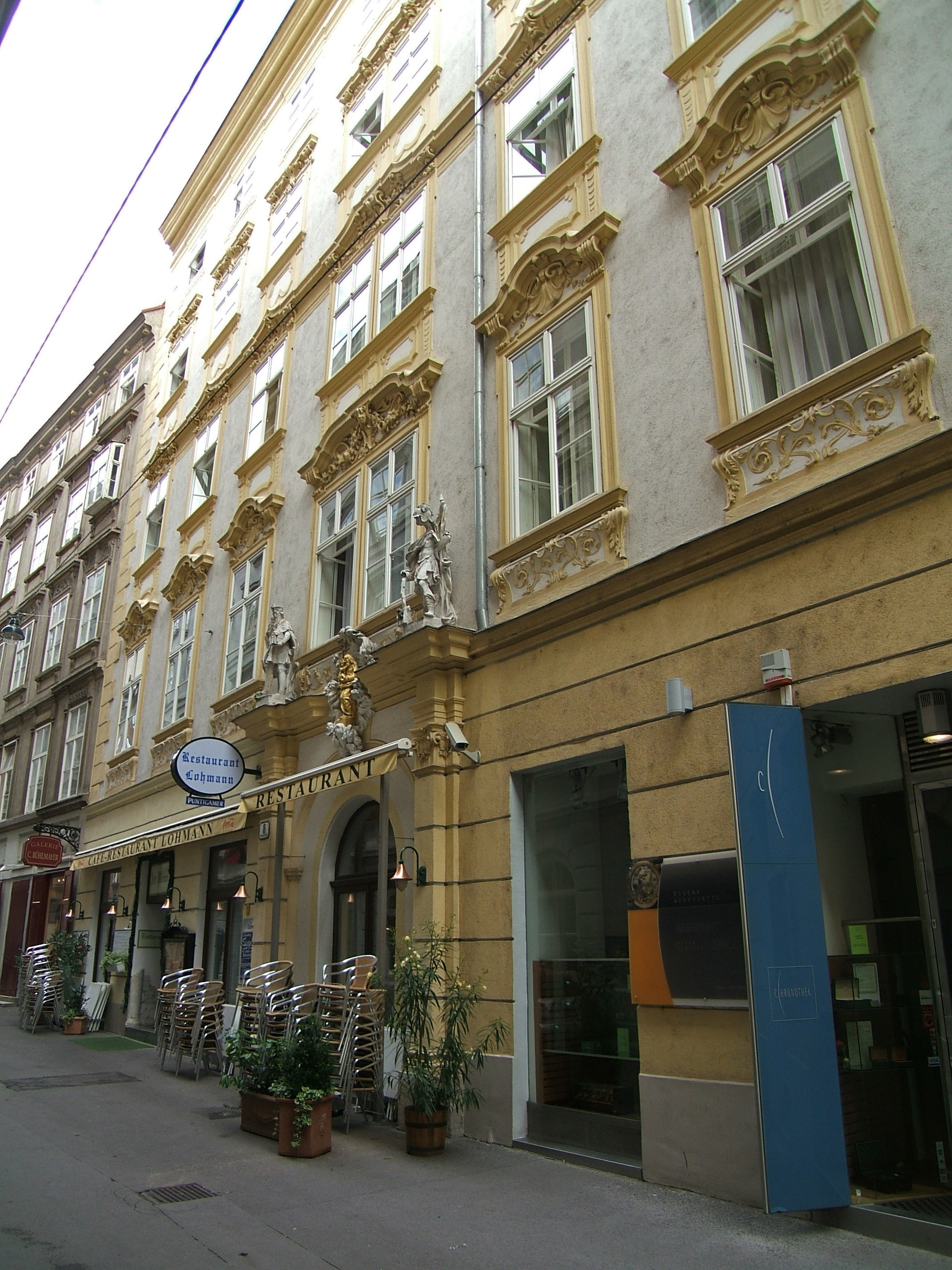 Palais Cavriani in Vienna, 1st district Bräunerstraße 8